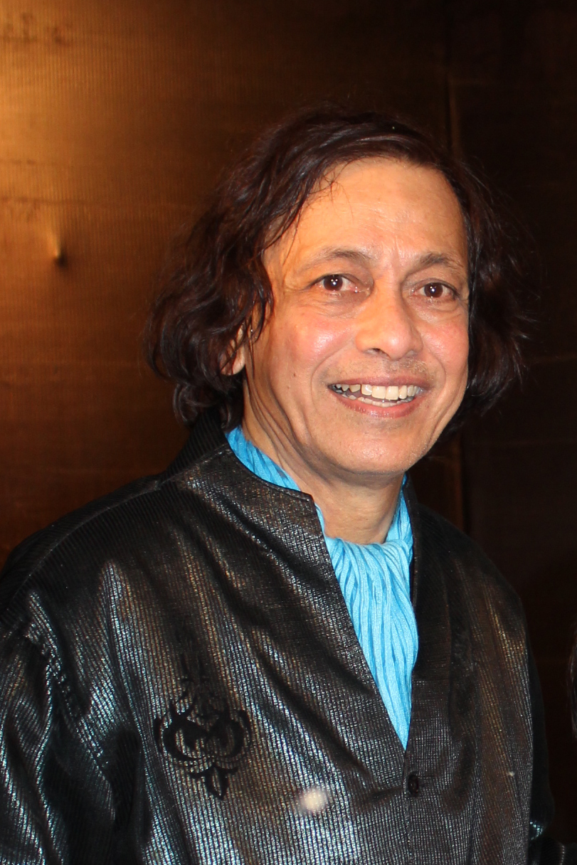 Ramdas Padhye - during Bhopal Visit October 2016